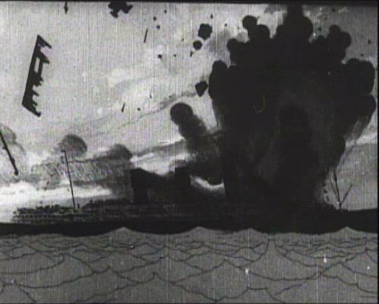 A still from the film The Sinking of the Lusitania by Winsor McCay. The Lusitania is hit by an exploding torpedo.